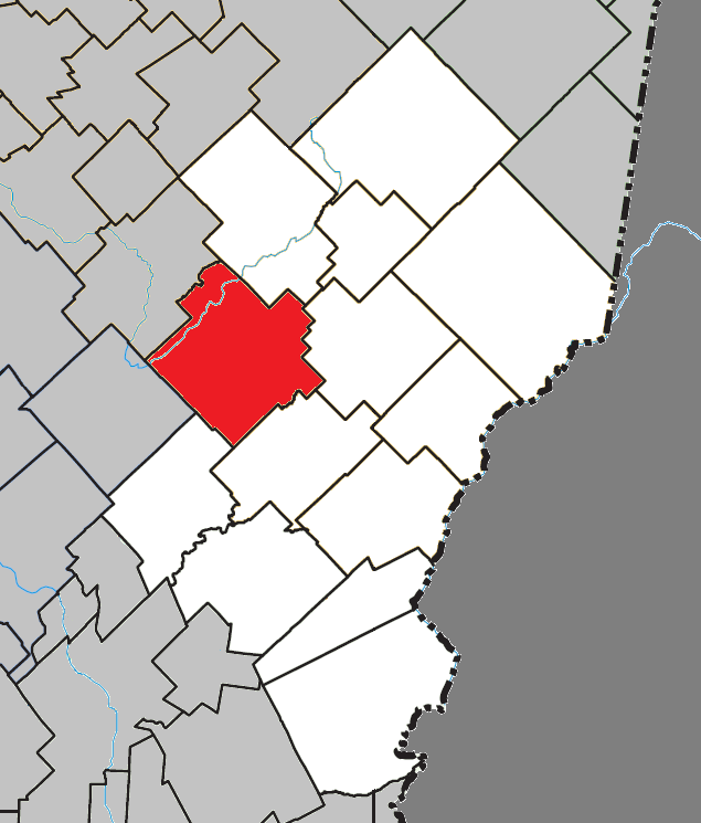 Location of Lac-Etchemin, Quebec within Les Etchemins Regional County Municipality.